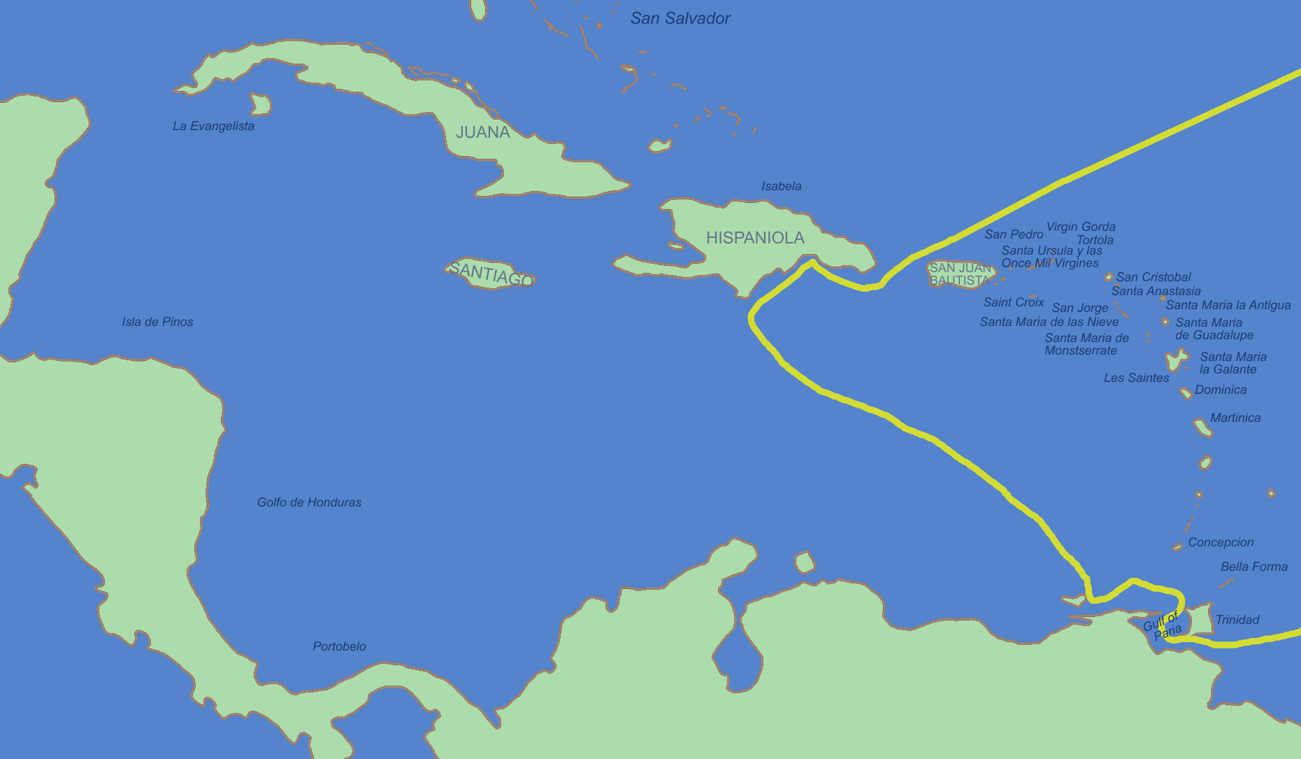 Third voyage of Columbus. Map uses the original Spanish names which Columbus would have known the locations as.